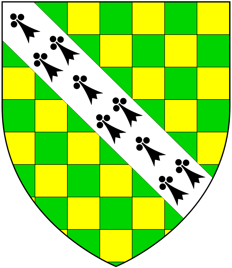 Arms of Sparke of Plymouth: Chequy or and vert, a bend ermine (Source: Vivian, Lt.Col. J.L., (Ed.) The Visitation of the County of Devon: Comprising the Heralds' Visitations of 1531, 1564 & 1620, Exeter, 1895, p.856)